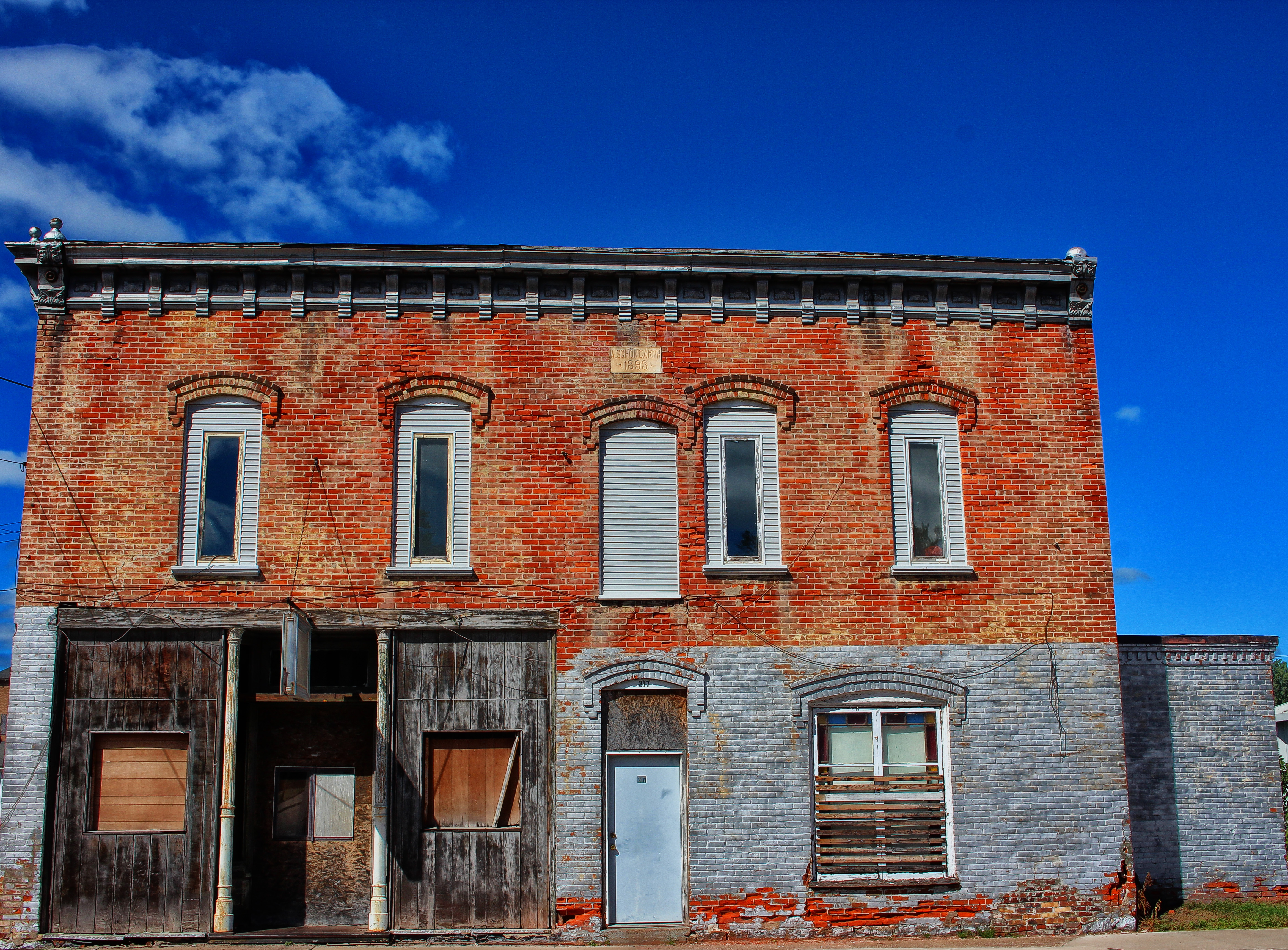 Omaha Hotel, 317 W. 7th St. Neillsville